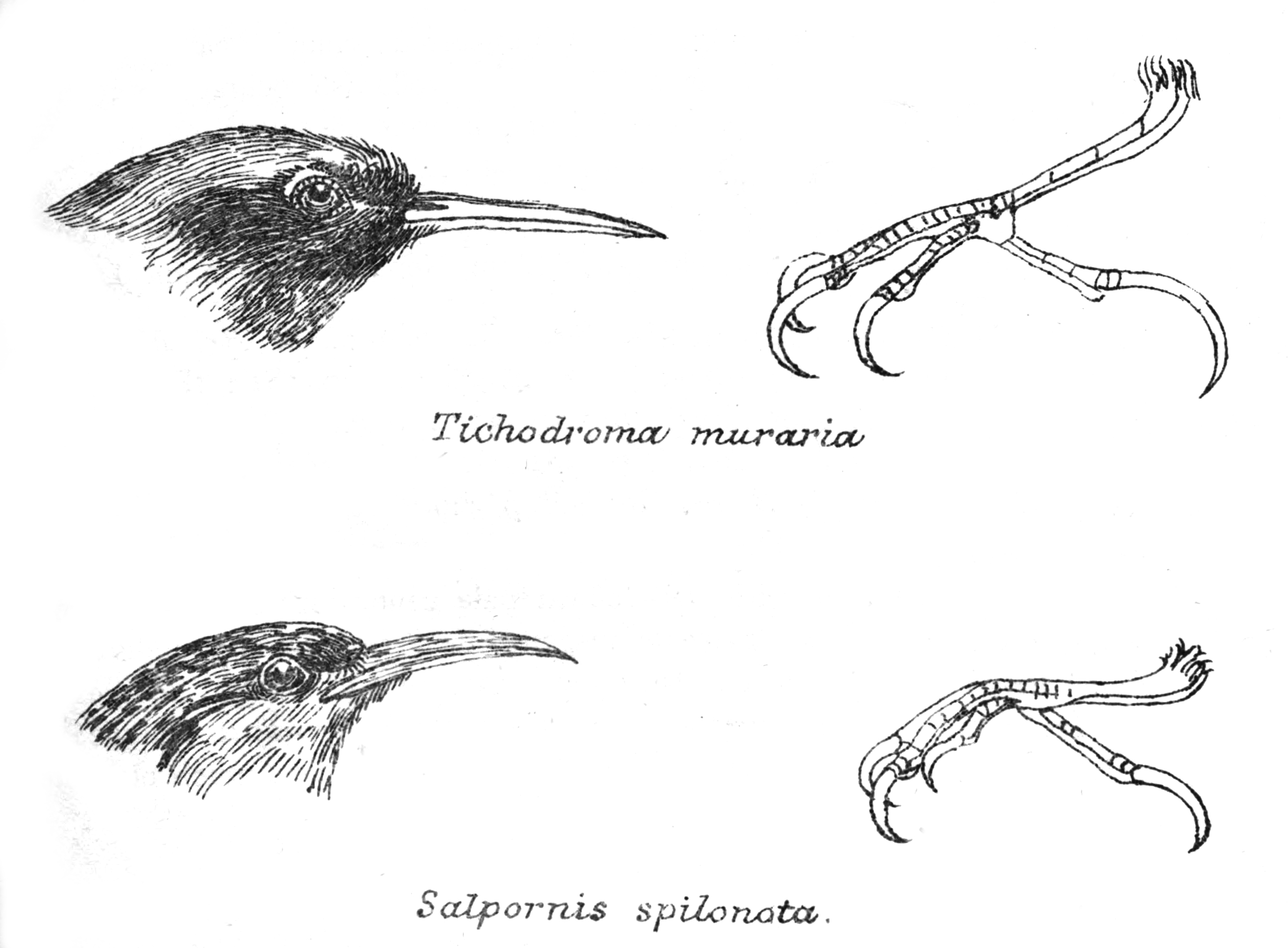 Head and feet of Tichodroma and Salpornis